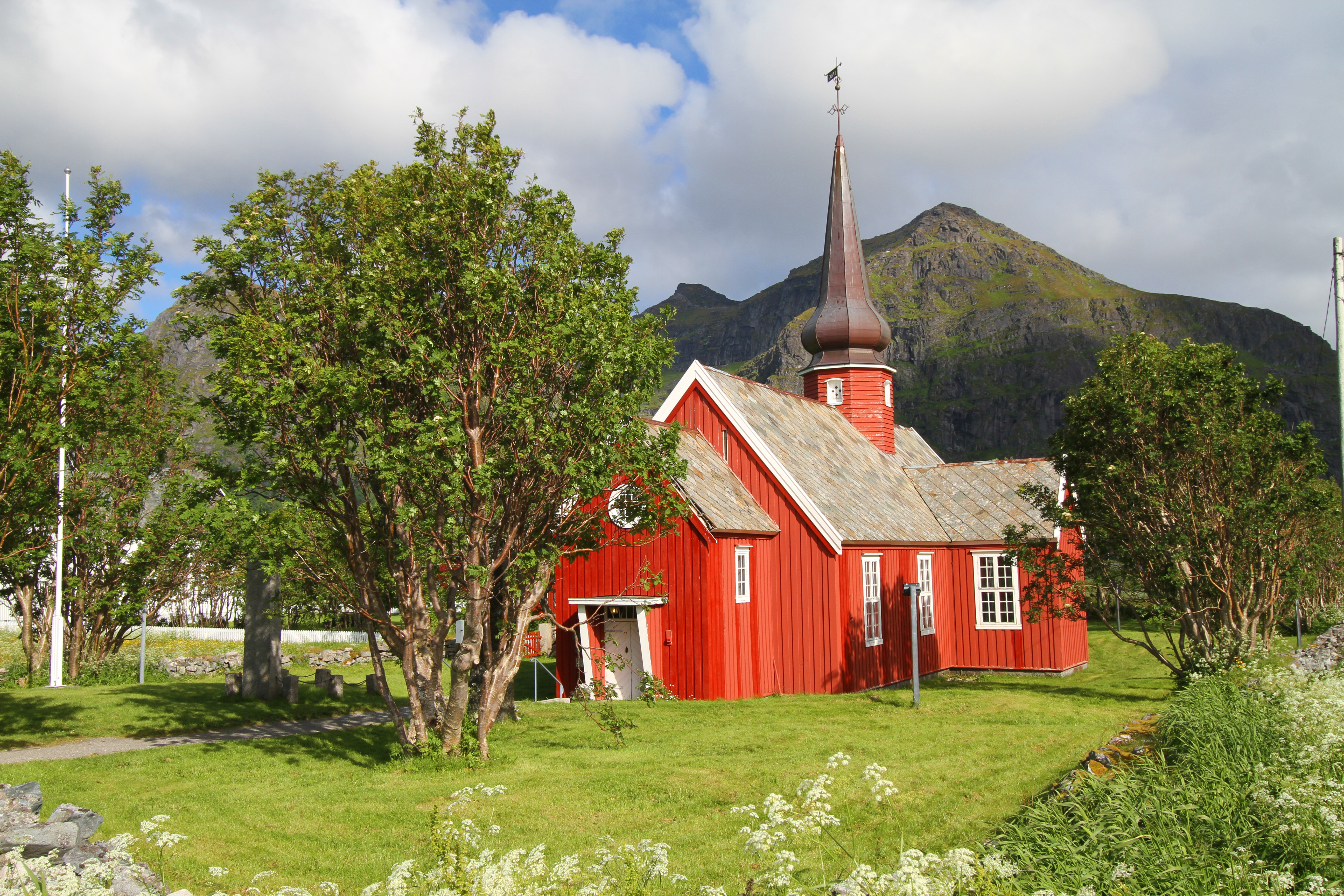 Flakstad church in Norway